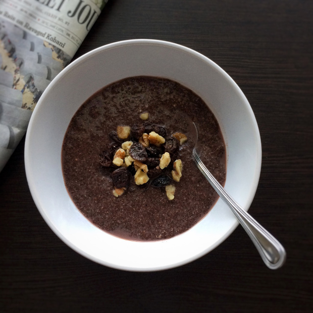 Image of chocolate chia seed pudding, made with milled chia seeds.